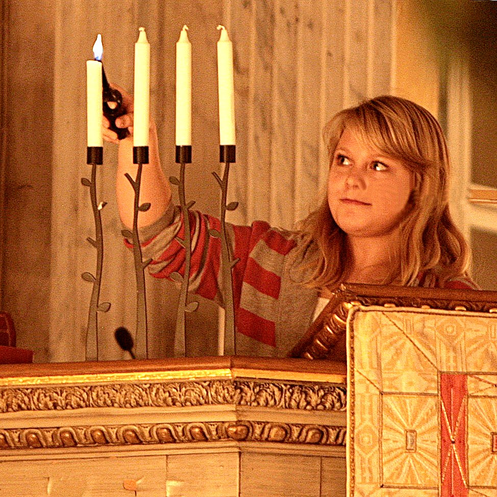 Advent Sunday in Vaxholm's church 2008